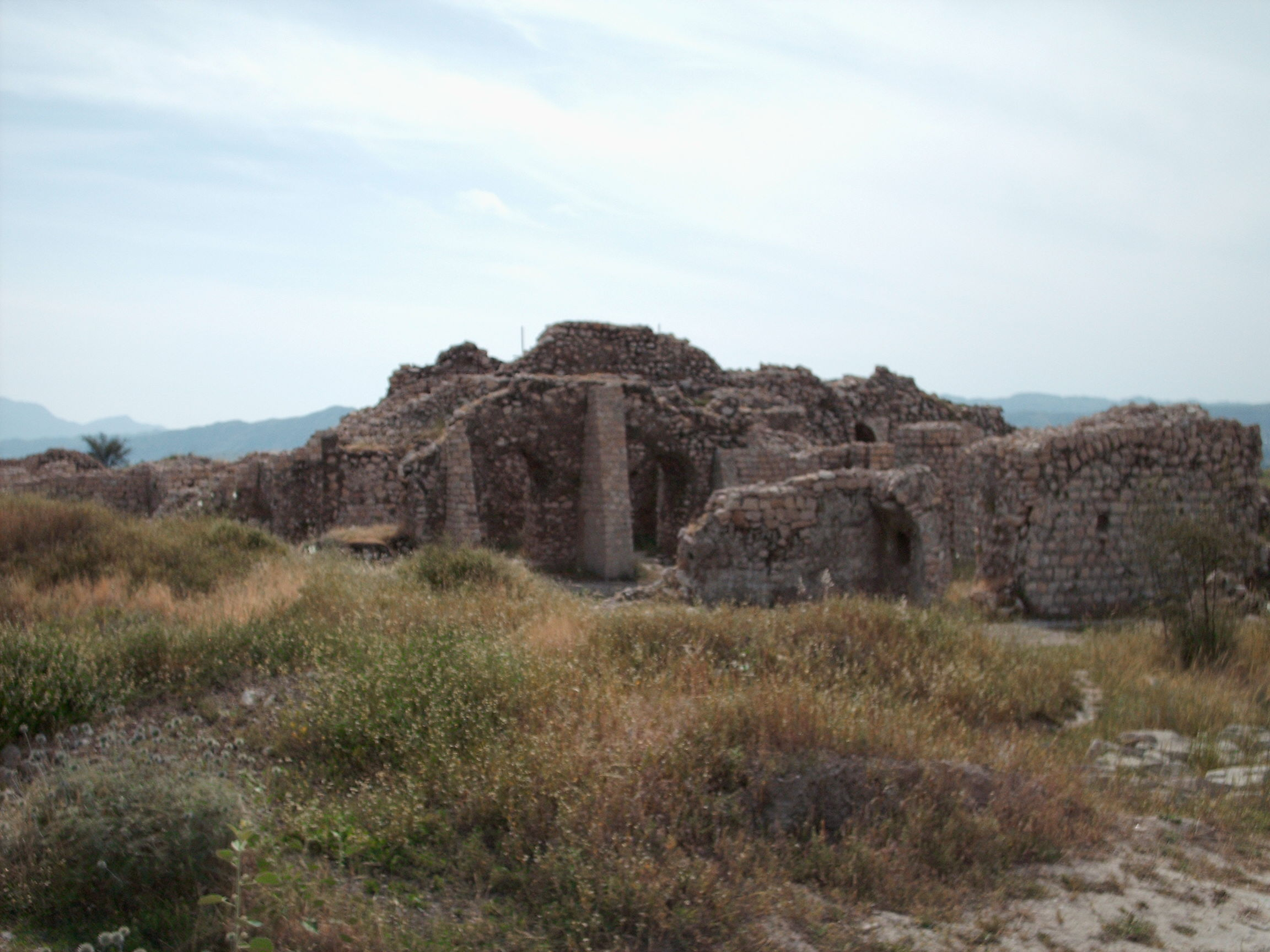 Picture taken by myself in Bishapour, Iran april 2006 Pentocelo 21:05, 16 September 2006 (UTC)